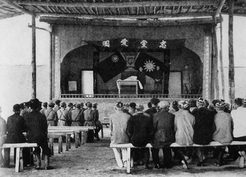 Kuomintang party in Urumqi, capital of Xinjiang province of China in 1942.